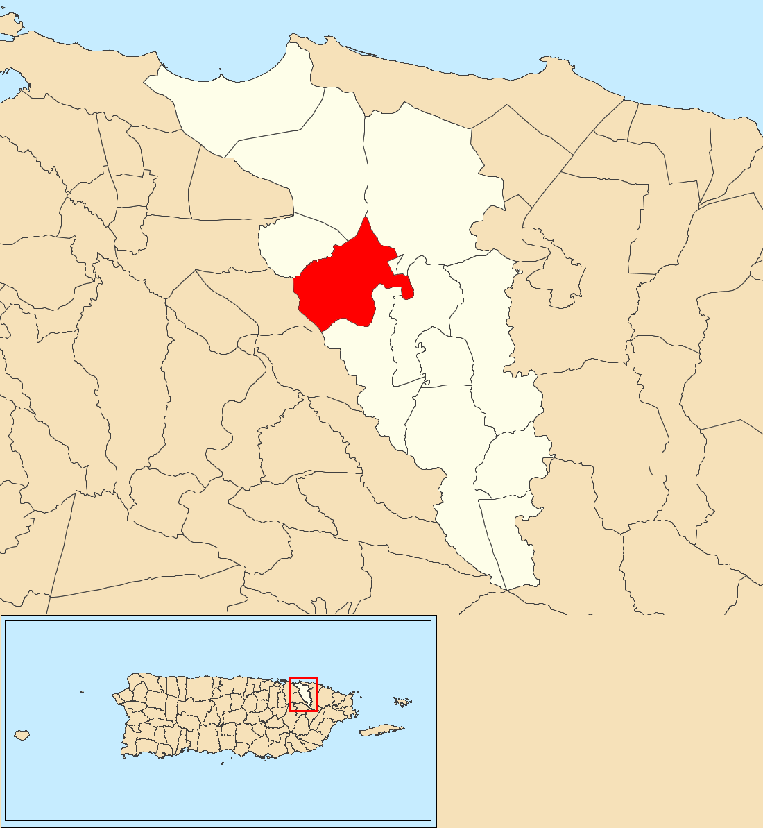 Martín González, Carolina, Puerto Rico locator map